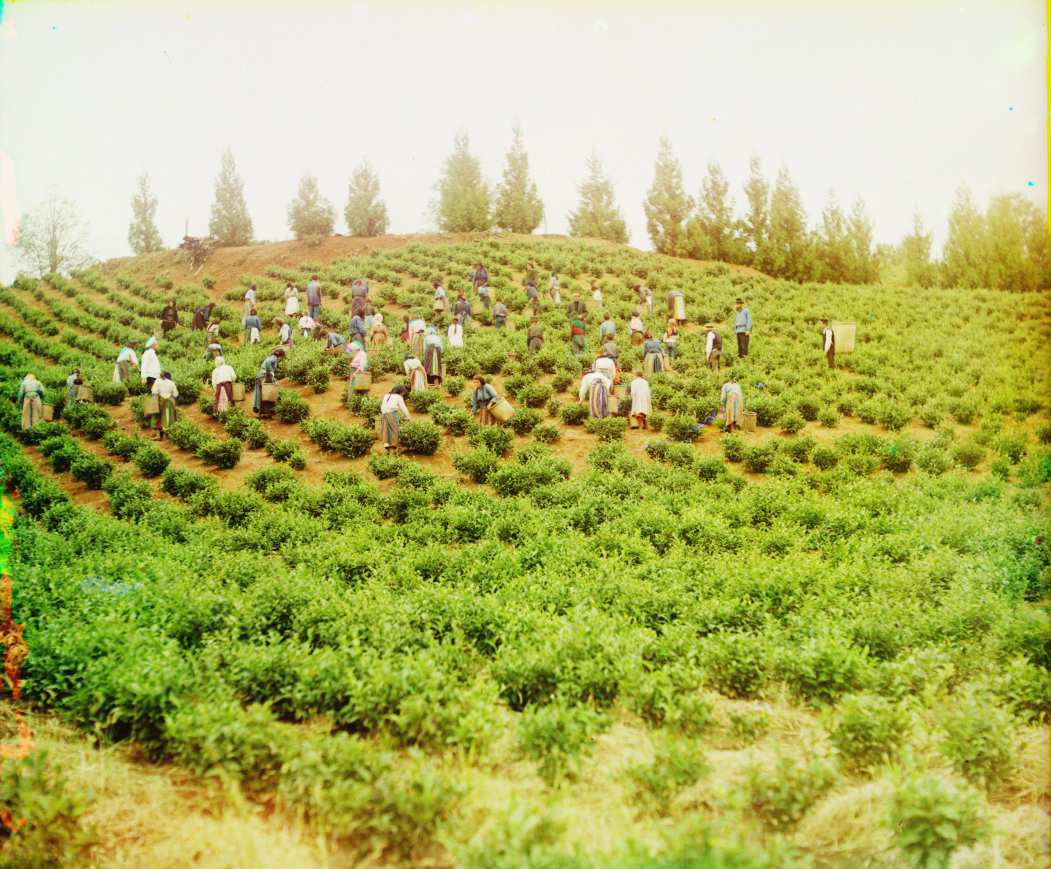 Harvesting tea, Group of Greek women, Caucasus, Chakva.